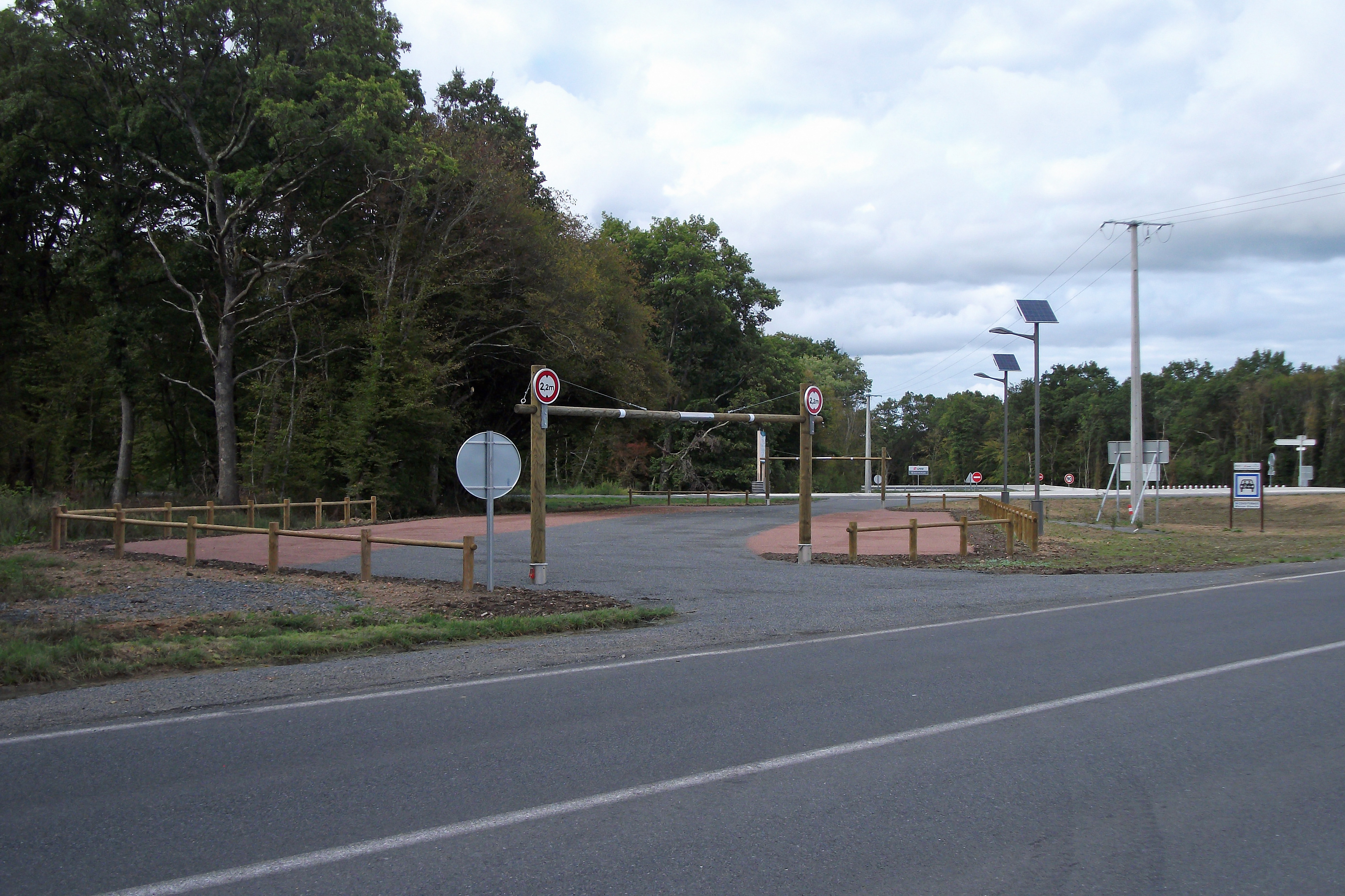 Maison Blanche (White House) car sharing parking in Espinasse-Vozelle, Allier, Auvergne, France, inaugurated September 18, 2015 [9129]